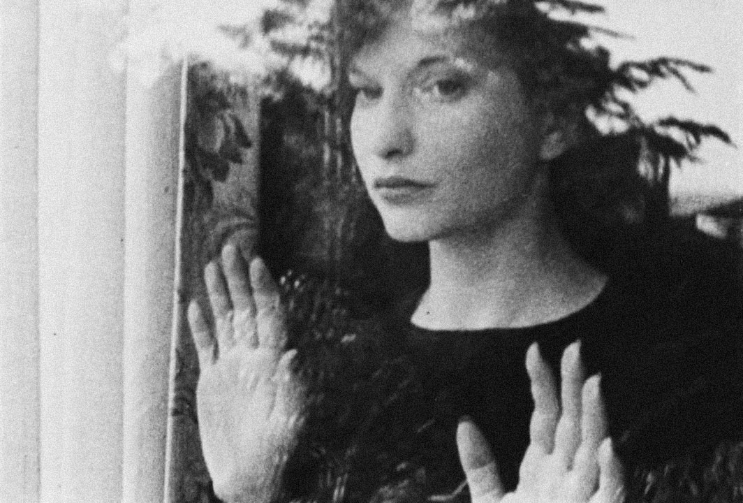 Still from the experimental 1943 short film Meshes of the Afternoon by Maya Deren. The still shows Deren looking out of a window.